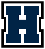 The Hockinson High School's letter for use in sports and media.